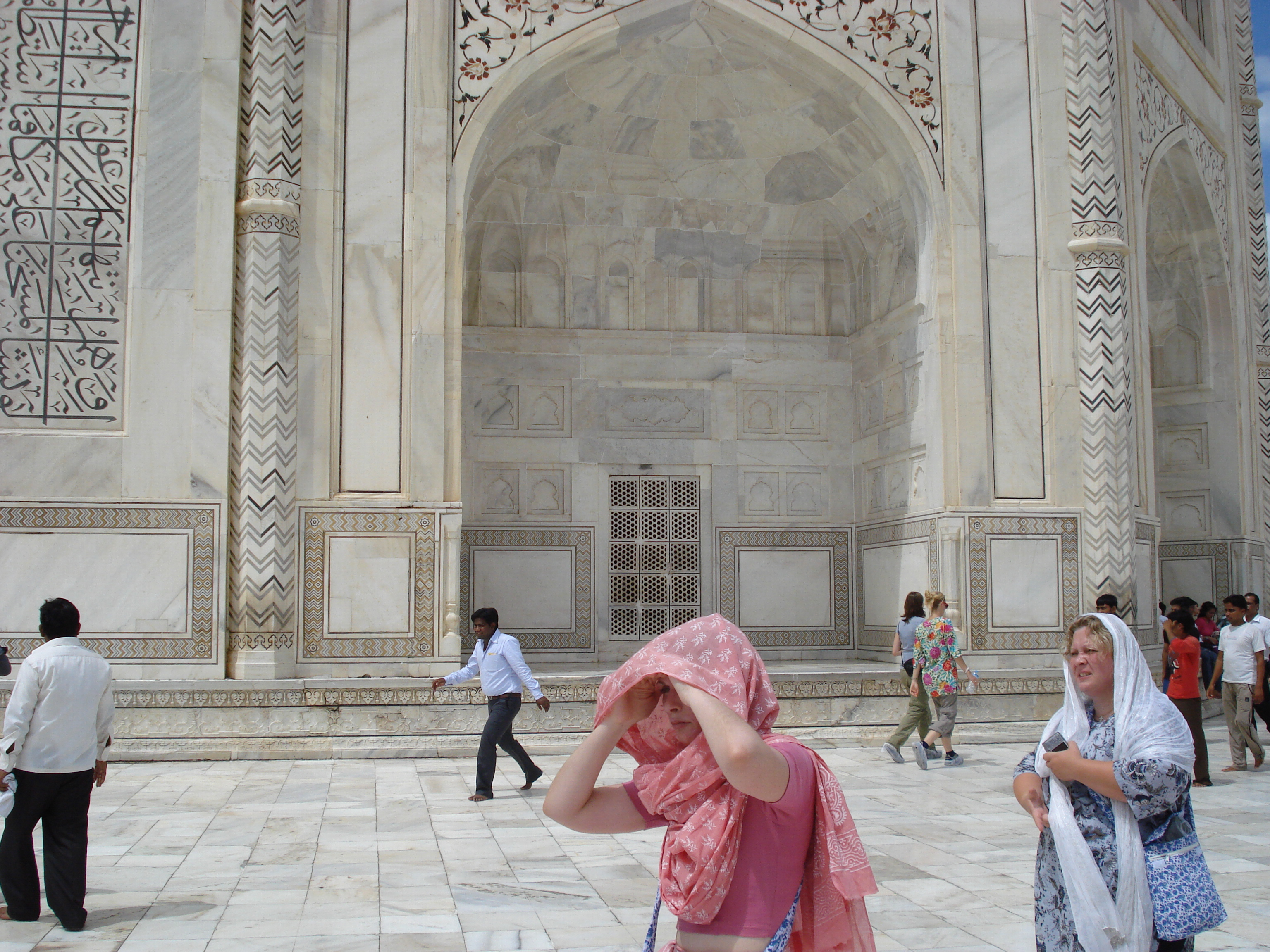 Persian in script tajmahal